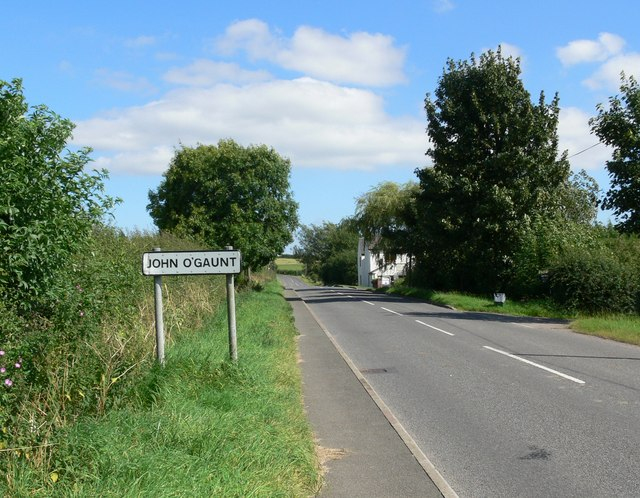 Burrough Road, John O'Gaunt